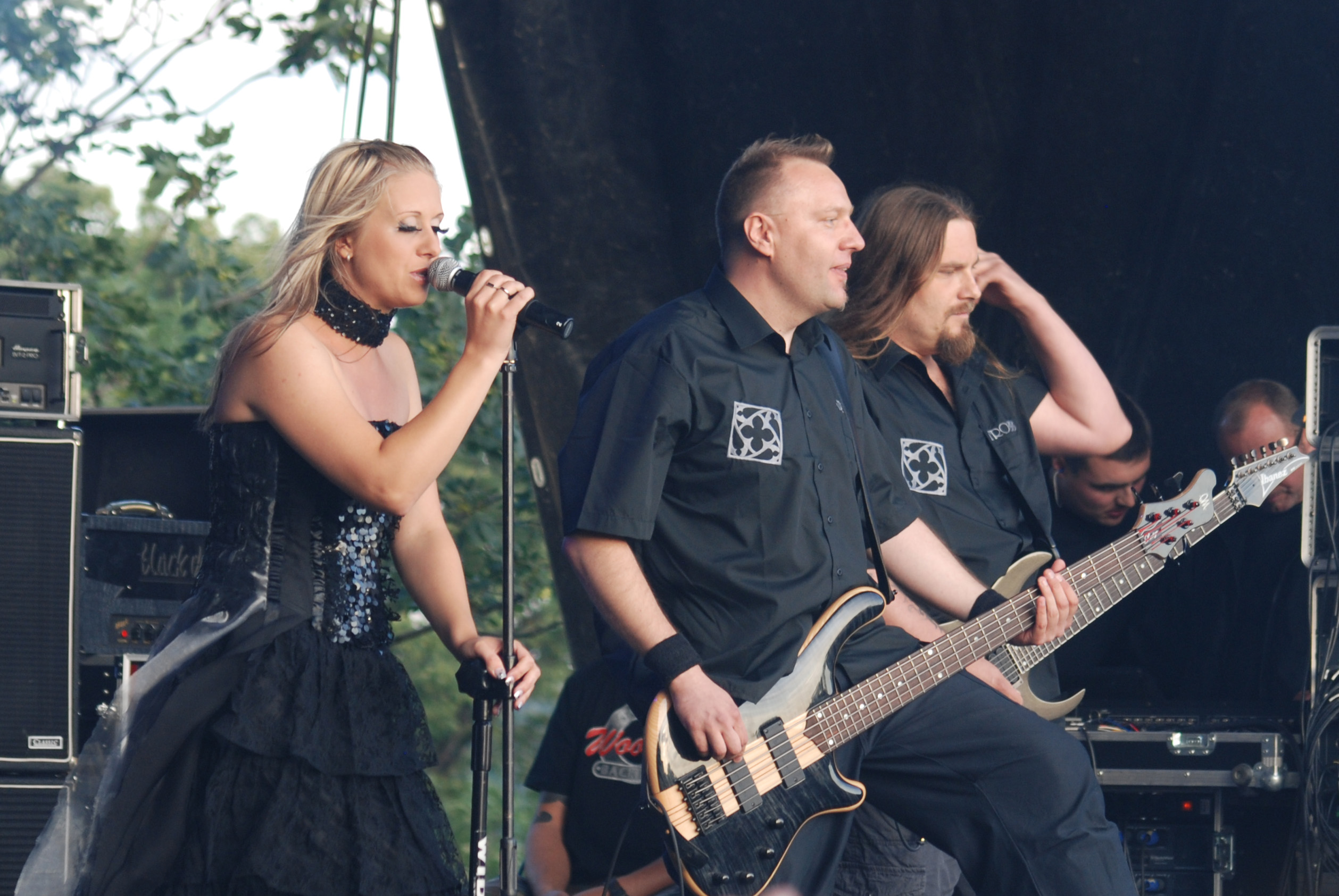 This photo was made in cooperation with CASTLE PARTY PRODUCTIONS in Bolków (webpage)